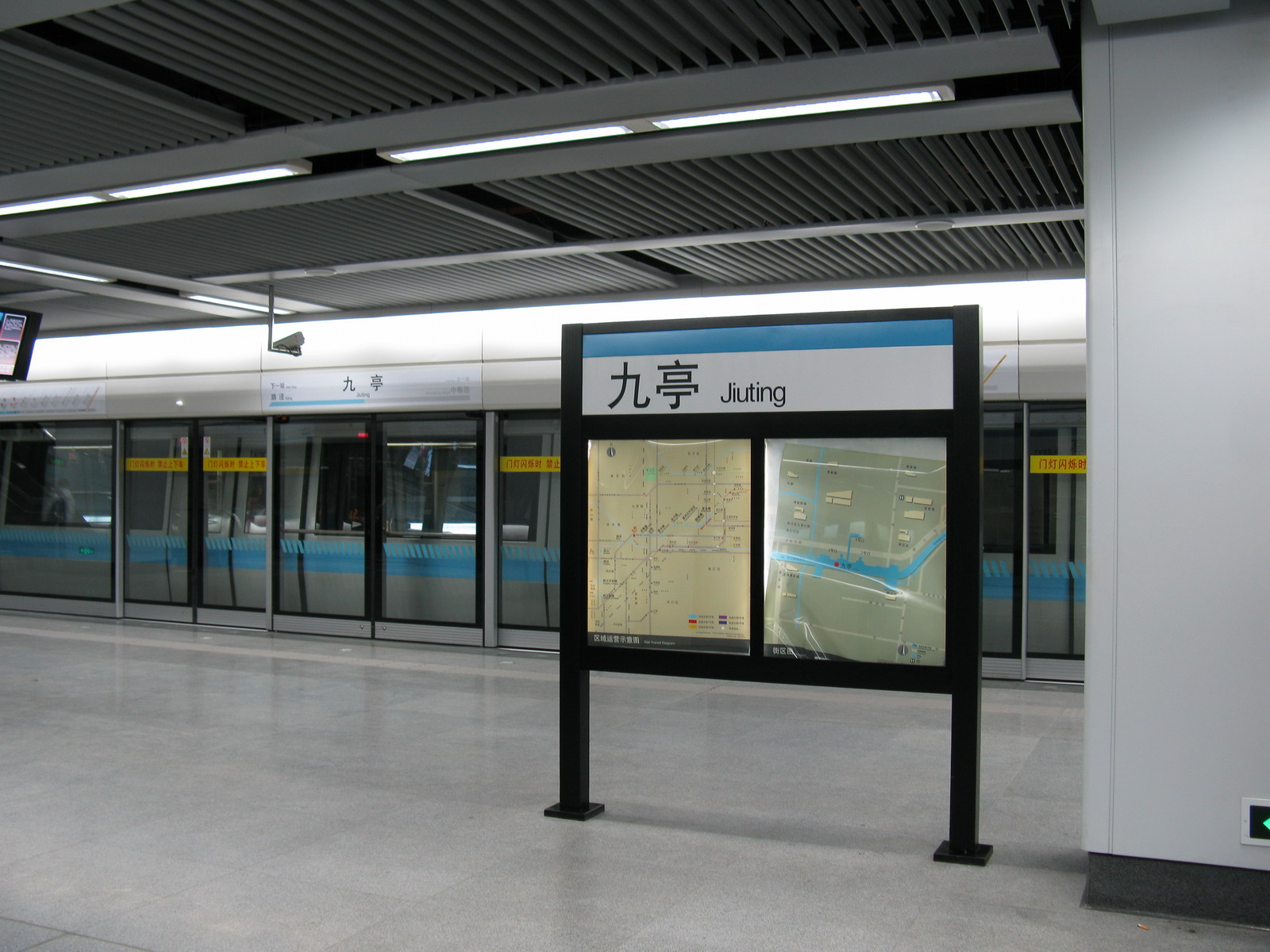 九亭站 9号线月台 Line 9 Platform of Jiuting Station